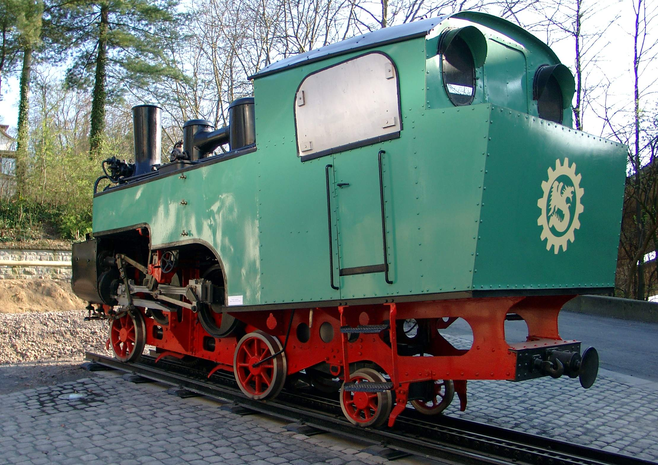 Steam locomotive 2`` of the Drachenfelsbahn at the valley station